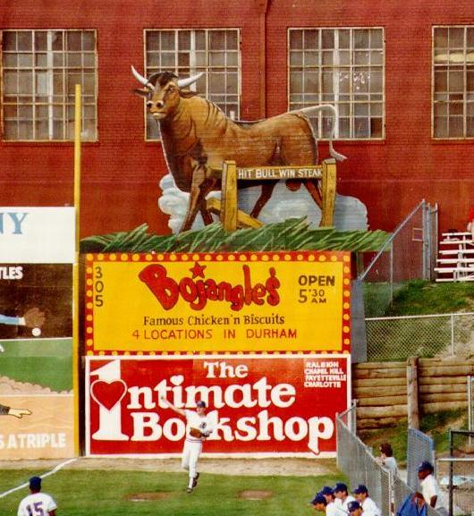 I took this picture on June 25, 1989, at Durham Athletic Park, in North Carolina. "305" is the distance in feet down the right field line. "Bojangles" is a restaurant chain. "The Intimate Bookshop" was a series of bookstores operated by Wallace Kuralt, brother of the newscaster Charles Kuralt. Both Kuralts are now deceased, and the bookstore chain has since folded, the original Franklin Street store being the last to go, in 1998.